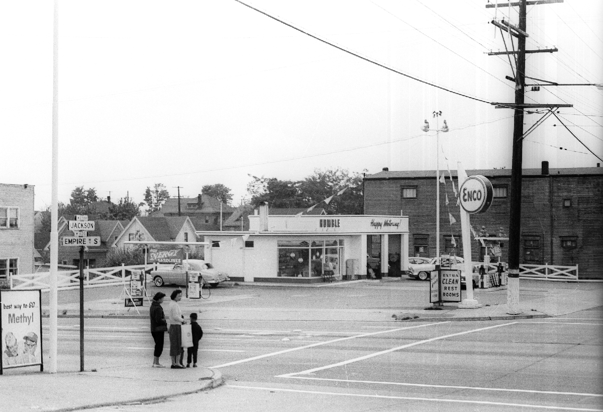 Pedestrians at Jackson St. and Empire Way (now Martin Luther King, Jr. Way), Seattle, Washington, 1961. "Enco" and "Humble" were two of the names used for what later became "Exxon" gas stations; at the time, the "Humble Oil Company" used "Enco" in areas where it was not allowed to use "Esso" (because "Esso" derived from "Standard Oil" and a different company -- in this case Chevron -- had the right the "Standard" name in that state.